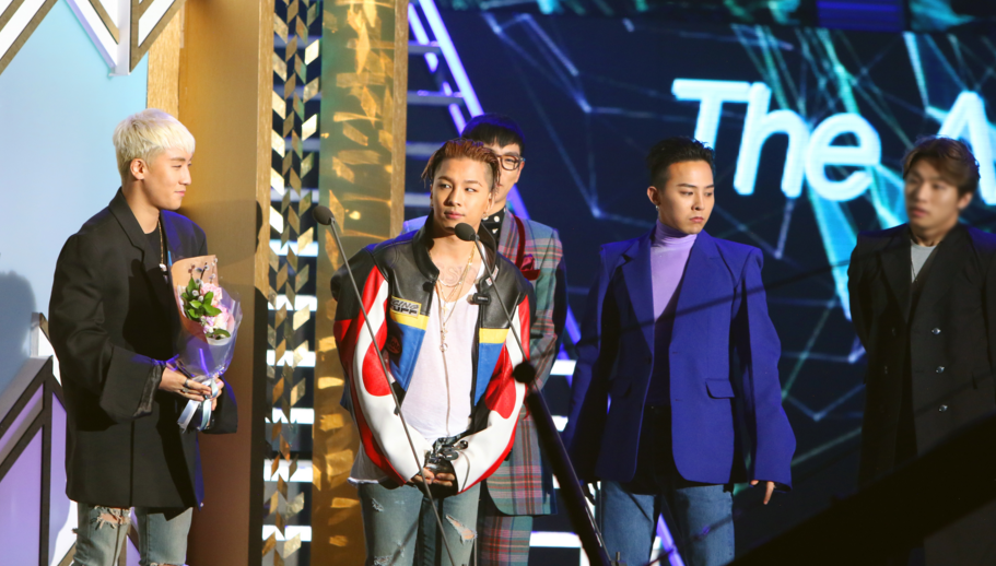 BIGBANG on Gaon Chart Music Awards 2016